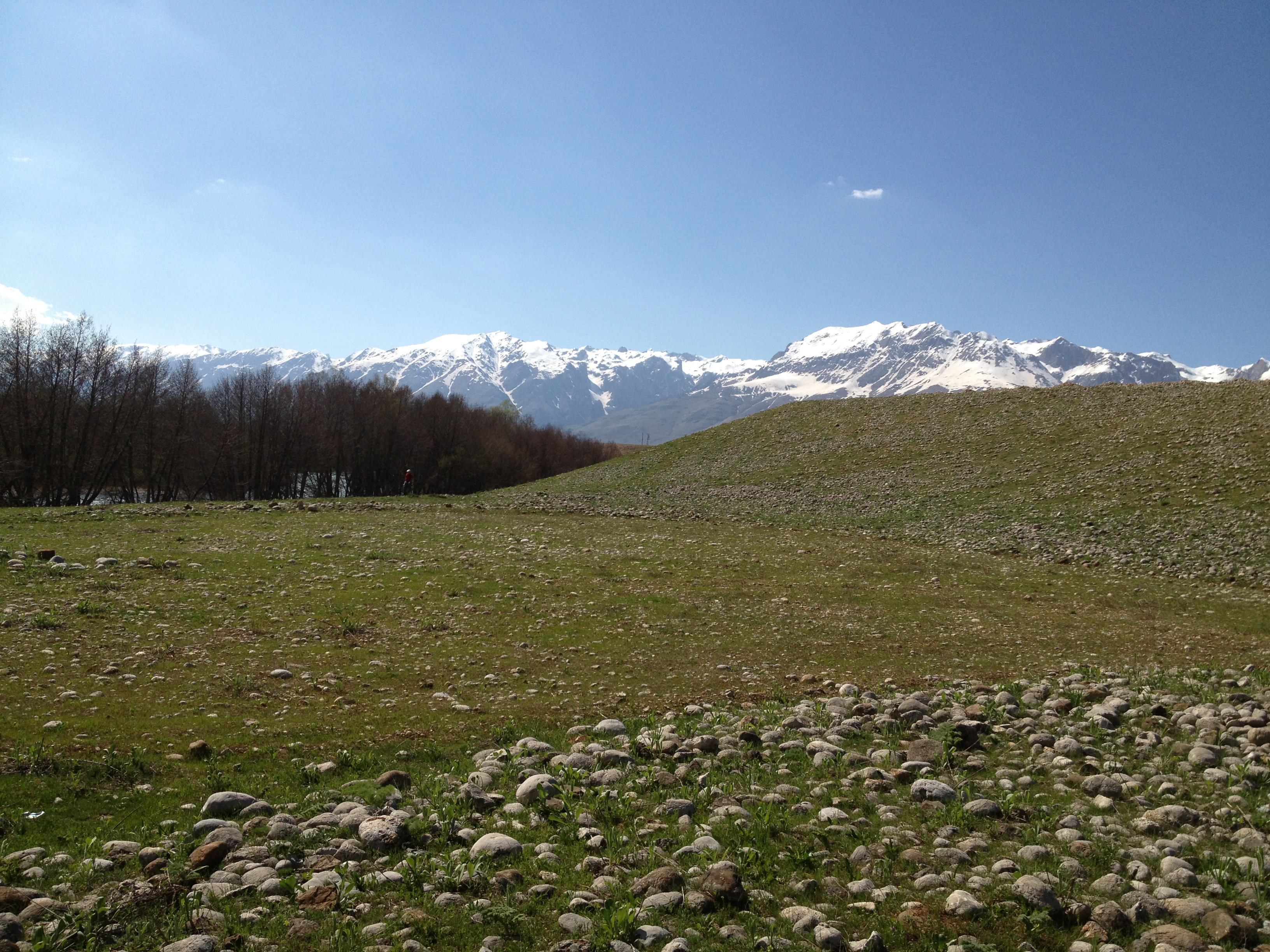 A view of Munzur Valley in Ovacik District of Tunceli Province of Turkey.